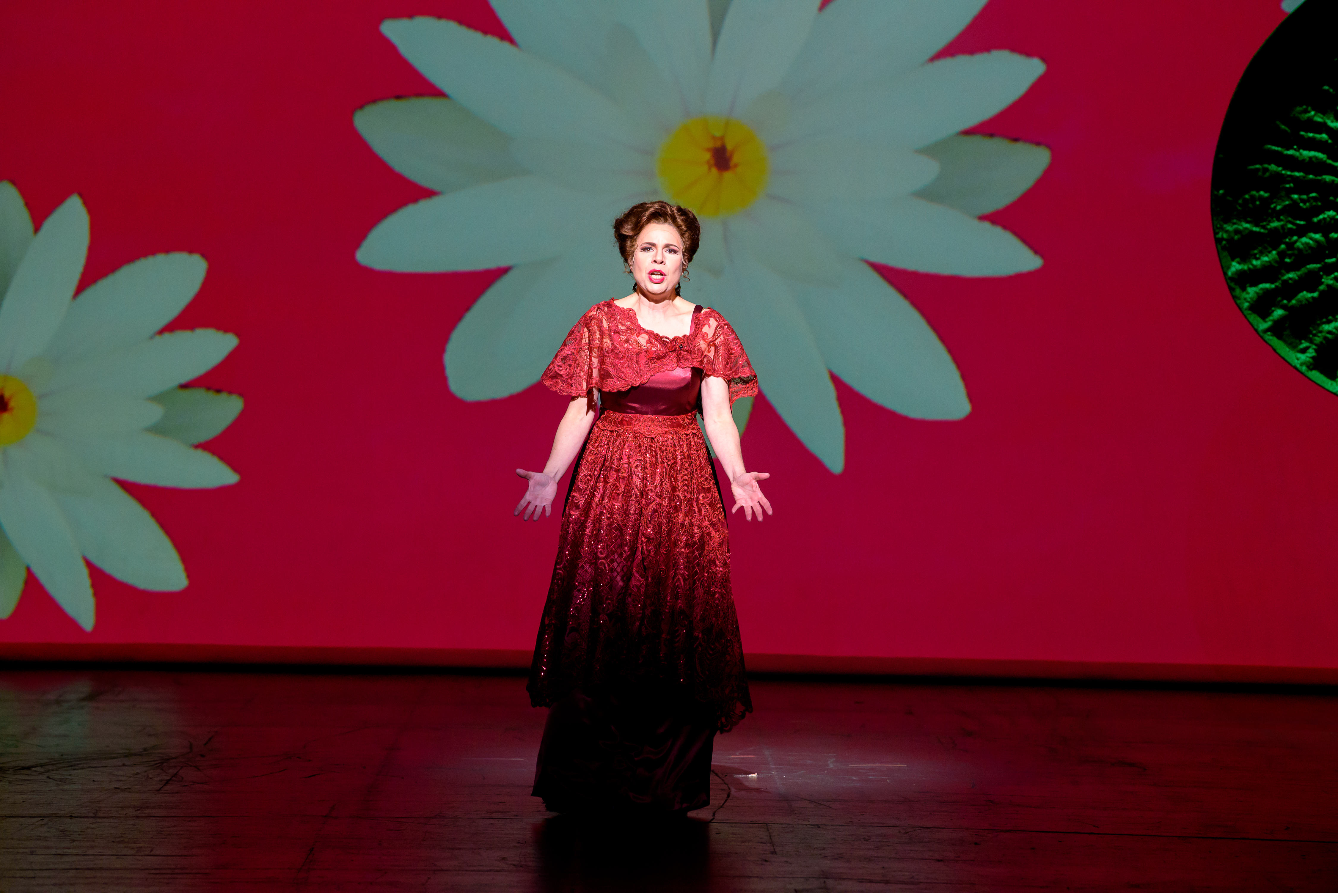 Photo by Chris Kakol